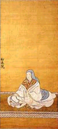 Myosenin, Shokakuji, Nagaoka, Niigata, Japan. Hori Naoyori's mother.